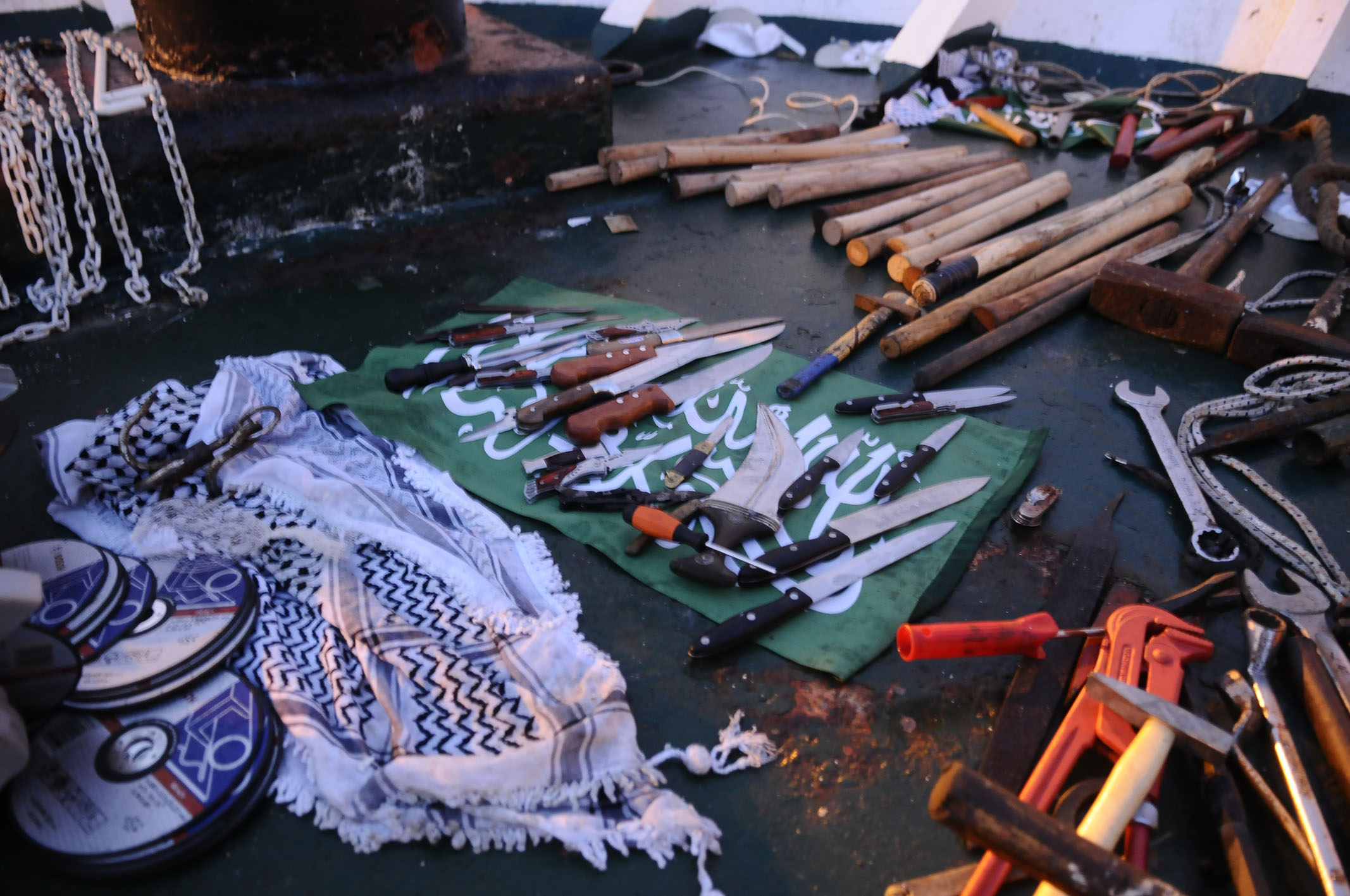 IDF soldiers who boarded the Mavi Marmara ship in order to enforce the maritime closure on Gaza, were met with a violent mob armed with clubs, slingshots, saws, knives, and used live fire against the IDF soldiers. Pictured here: Knives, wrenches, and wooden clubs used to attack the soldiers during the operation. For more information: wp.me/ppbEs-qf